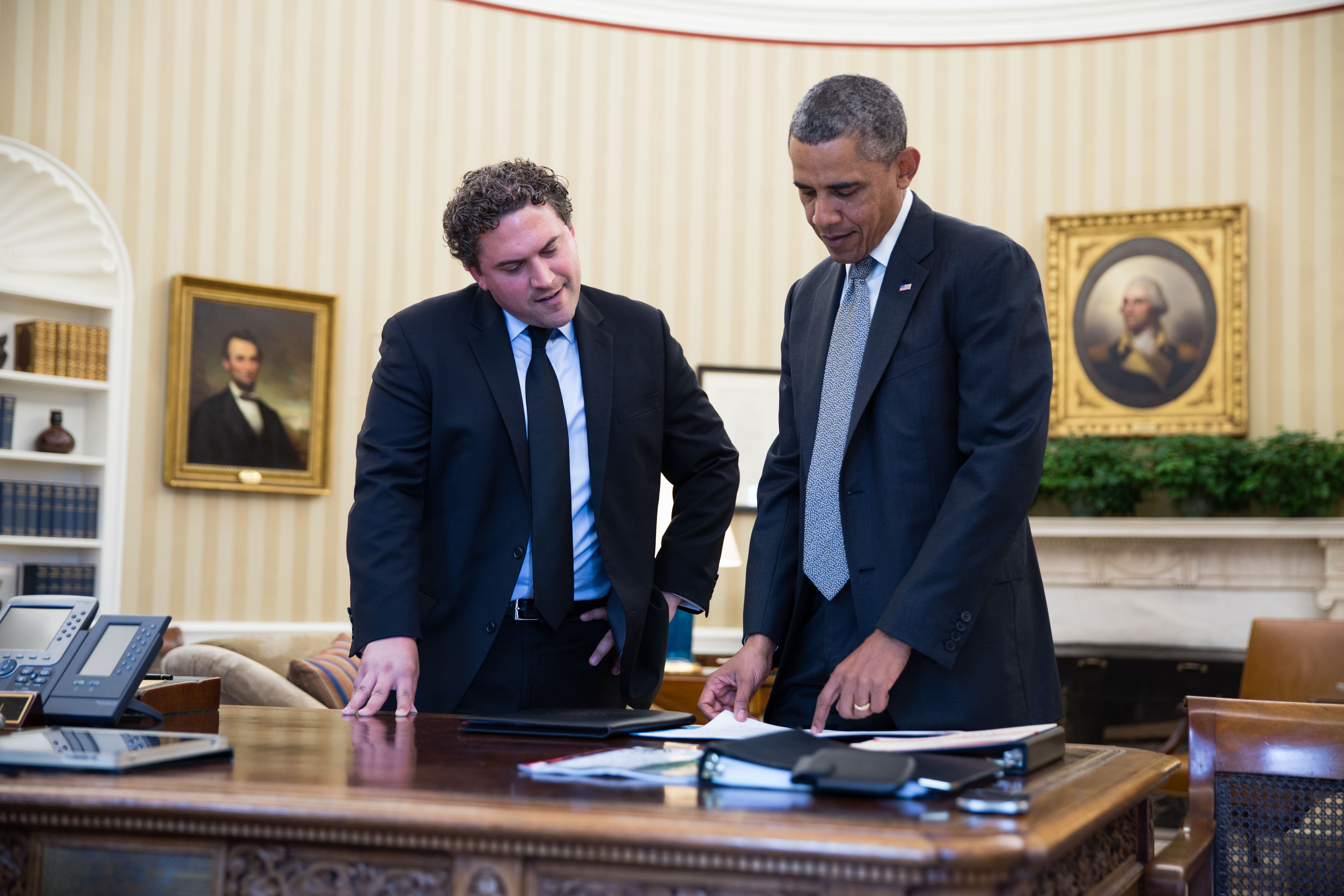 President Barack Obama talks with Director of Speechwriting Cody Keenan in the Oval Office, July 23, 2013. (Official White House Photo by Pete Souza)